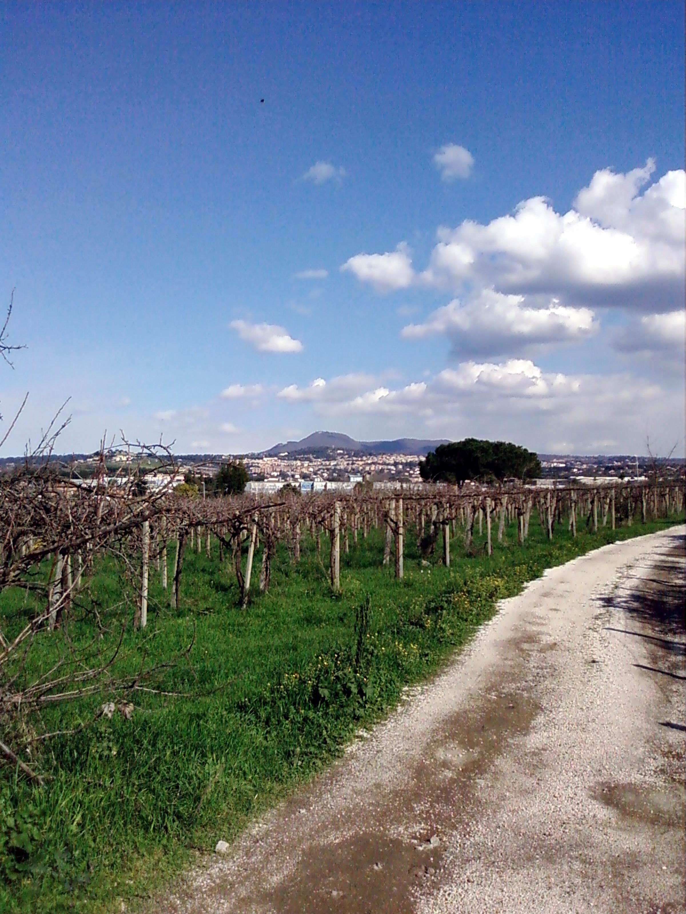 View of Albano Laziale and the Alban hills